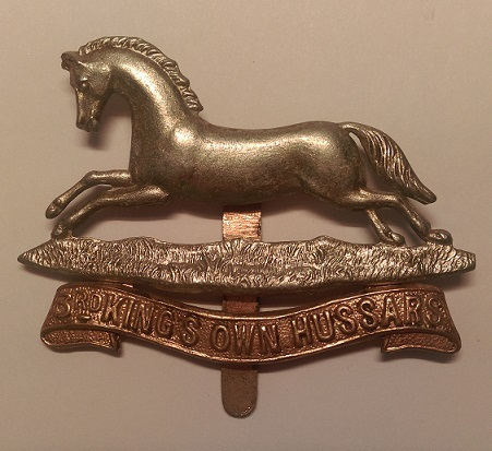 Photo of 3rd The King's Own Hussars Cap Badge from personal collection